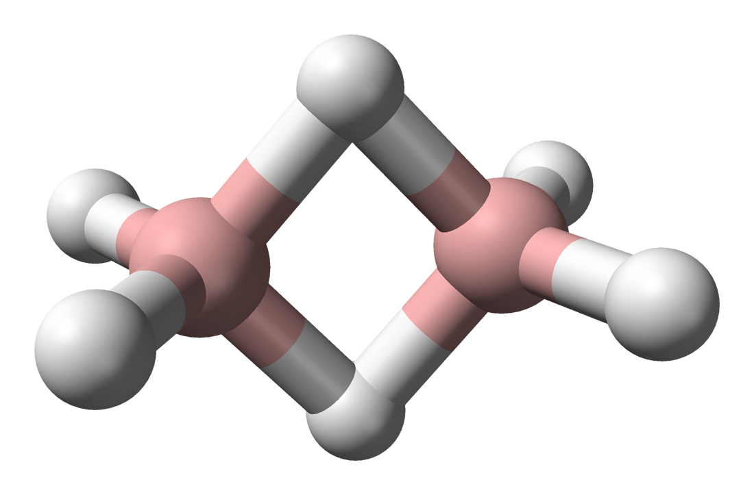 Ball-and-stick model of the diborane molecule, B2H6